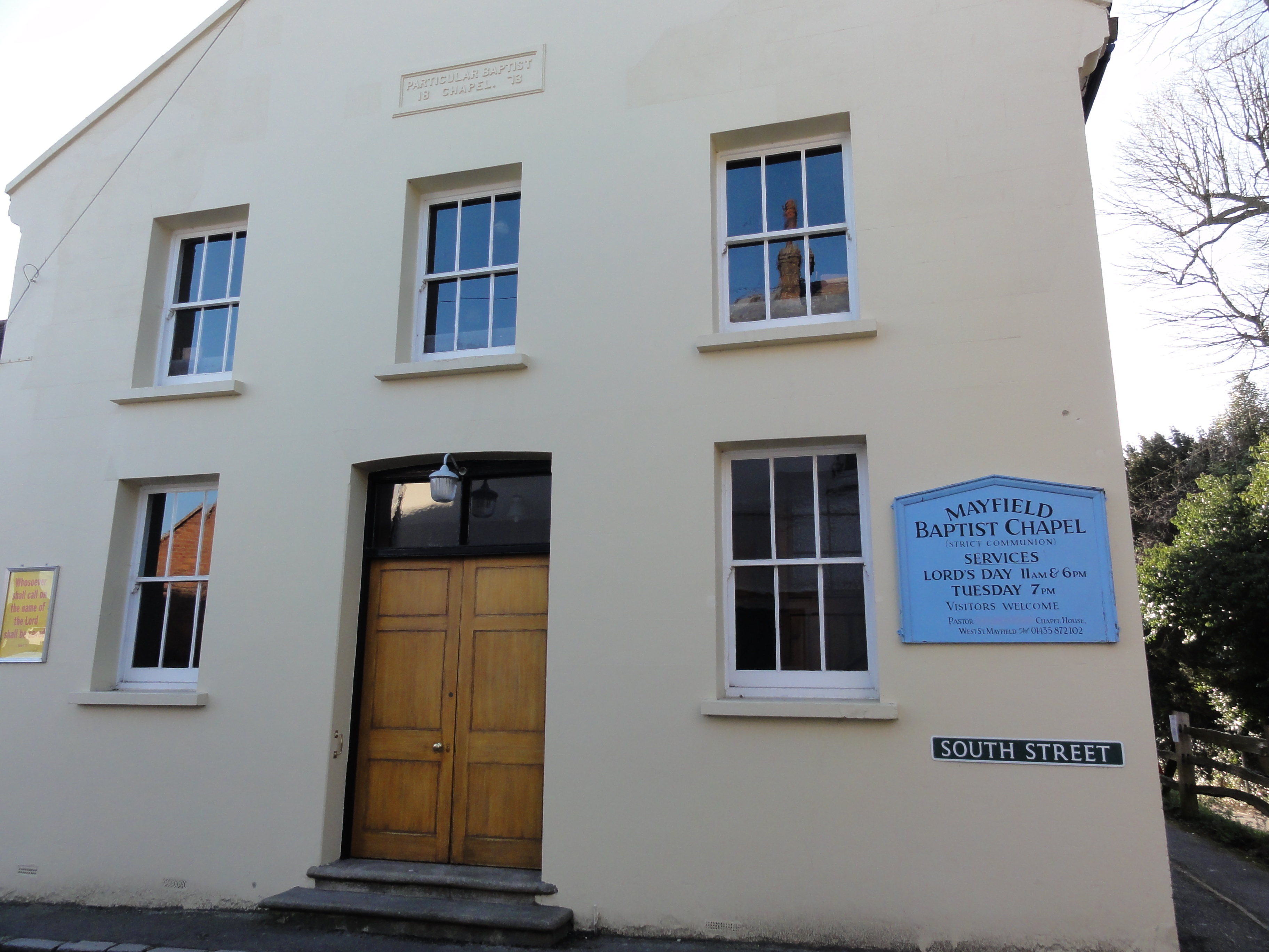 Baptist chapel in South Street, Mayfield.